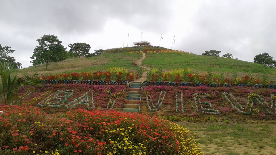 Formerly, an open dumpsite converted into an ecological facility.